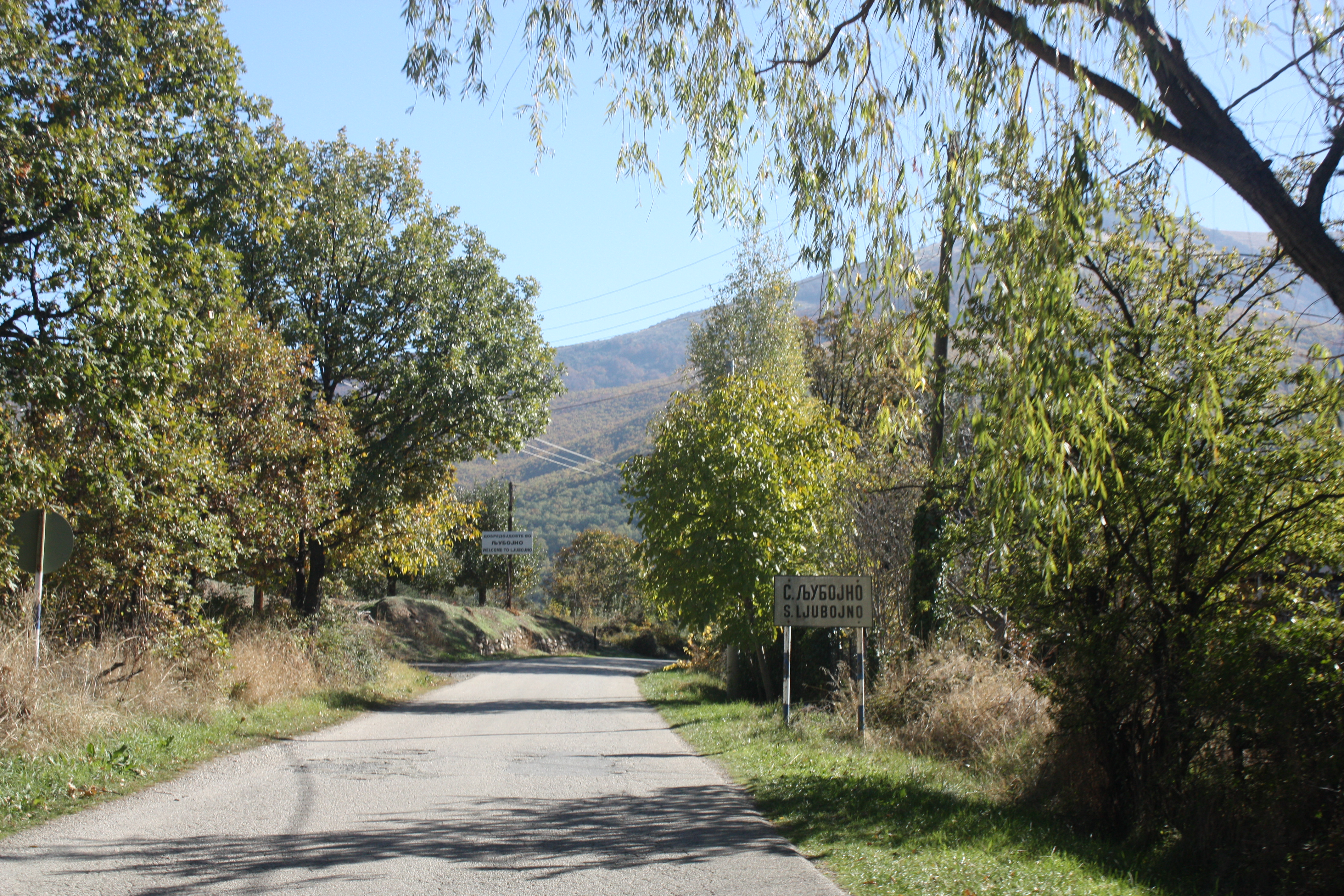 Entrance to Ljubojno